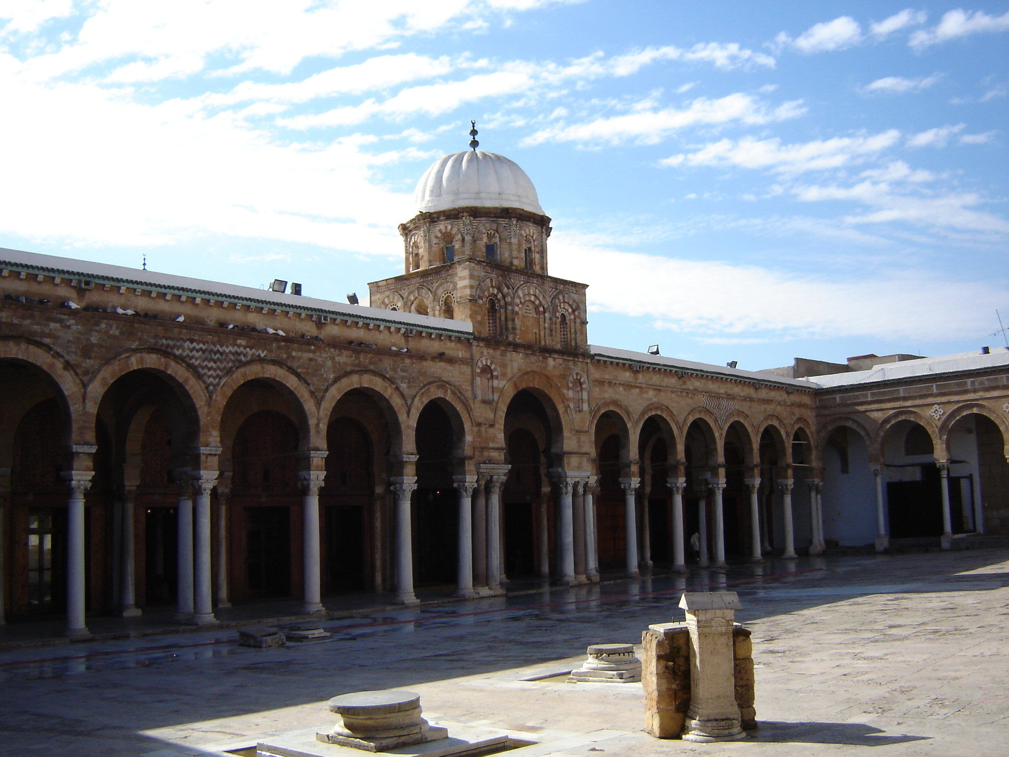 Court of the Zitouna Mosque, Tunis, Tunisia Sourse: Self-made (October 2004) Photographer: BishkekRocks 12:59, 26 December 2005 (UTC)